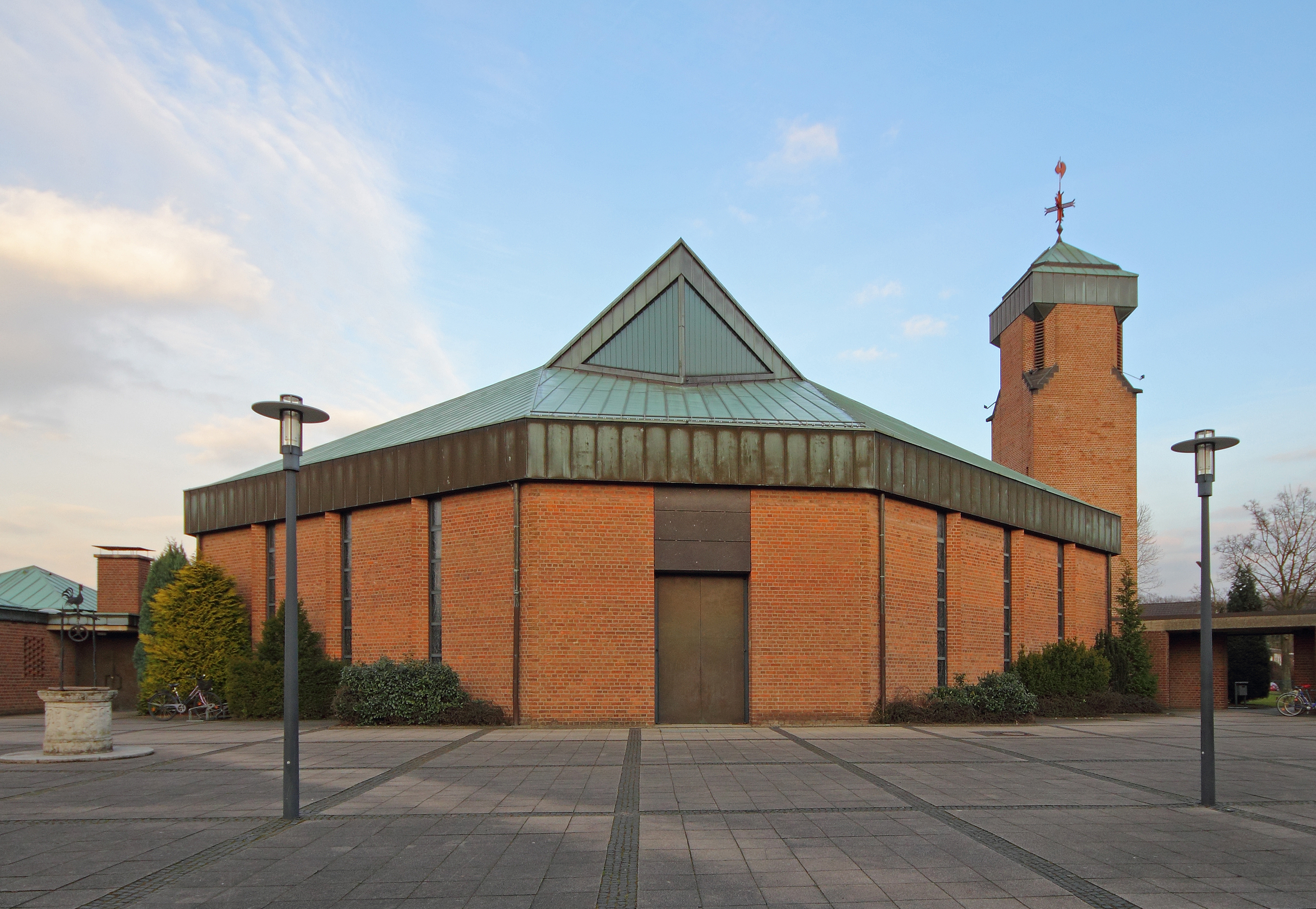 Church of St. Francis in Leverkusen-Steinbüchel